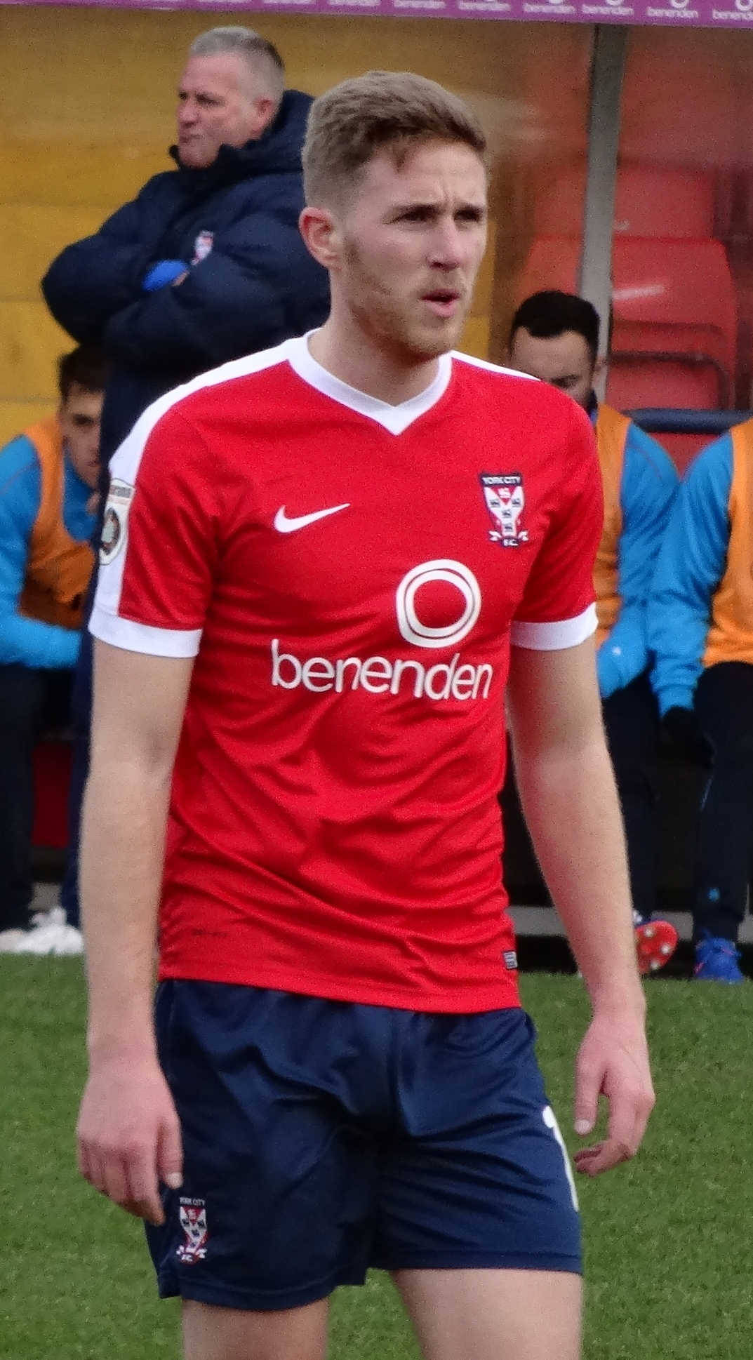 Asa Hall playing for York City against Brackley Town at Bootham Crescent, York on 25 February 2017